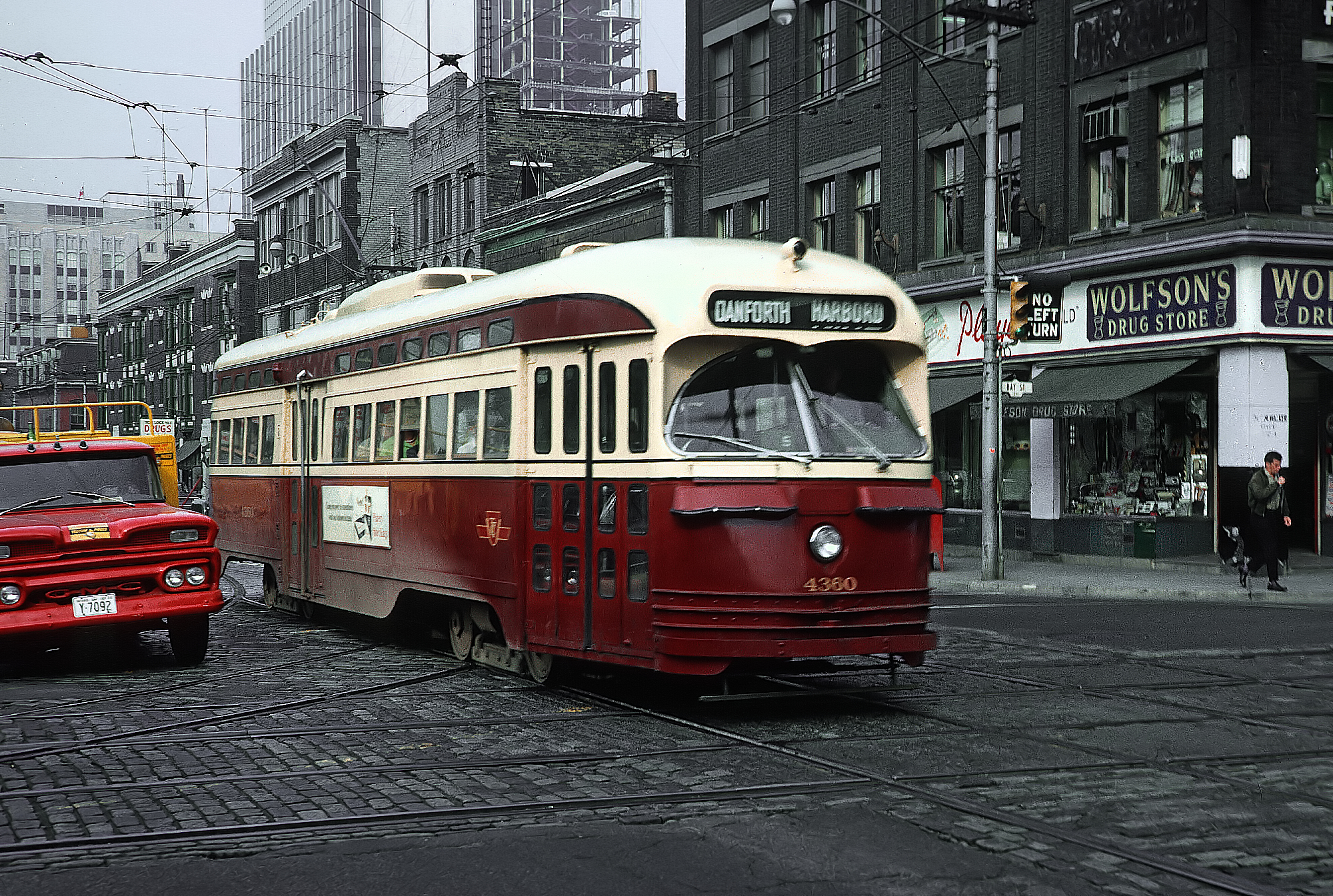 A Roger Puta photograph